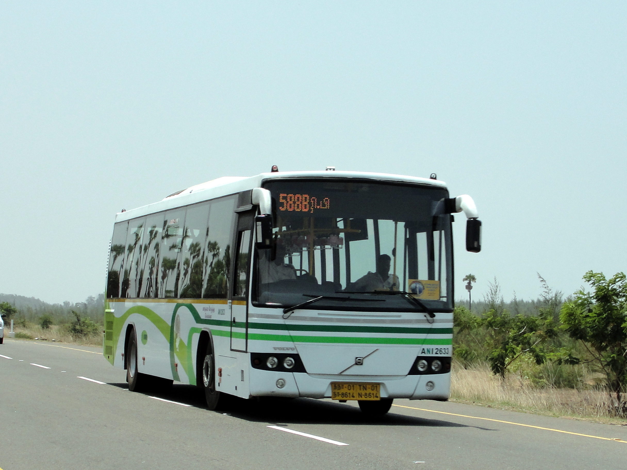 A MTC B7R on ECR